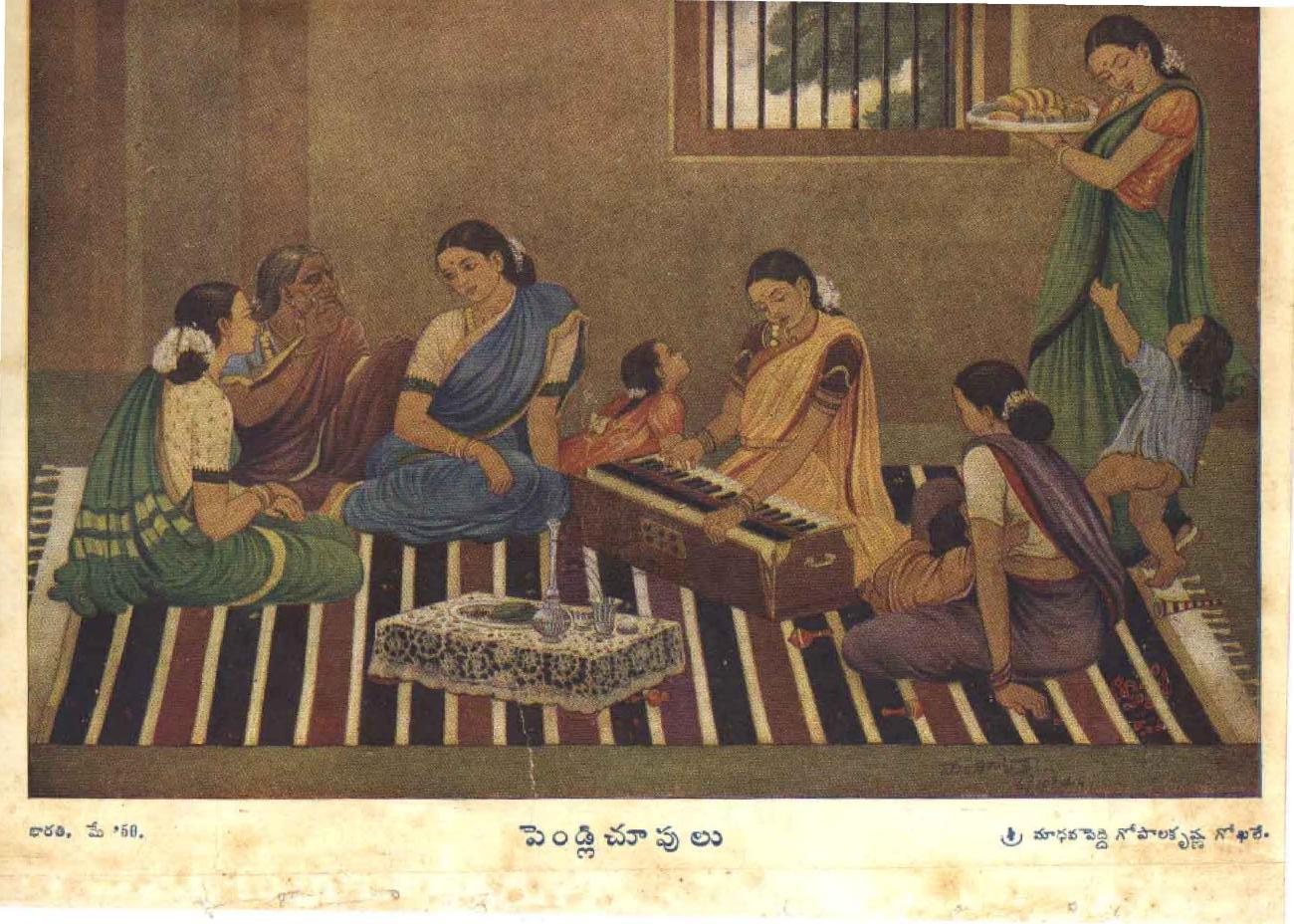 This is the painting published in Bharati Magazine in 1950s